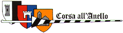 Corsa all'Anello